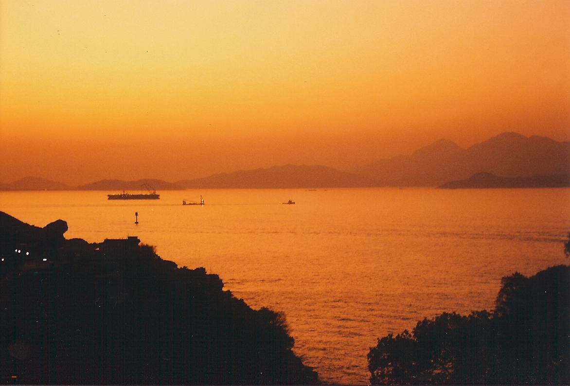 Looking west from Pak Kok Tsuen (village) on Lamma Island, just south of Hong Kong island, as the sun goes down. A tug pulling a barge or lighter moves away from the moored cargo ship with cranes. This is the view from the roof of a house on a slight rise between the valley and the sea (Lamma Channel). These photos were taken about a year after Mt Pinatubo erupted in the Phillipines. It is claimed that Turner's classic sunsets were caused by dust from eruptions by Mount Tambora and other volcanoes; it's certainly true that Hong Kong had these amazing Turneresque sunsets around the period corresponding to Mt Pinatubo's activity. Taken 1992/3 on Fuji film. Image 4 of 4.